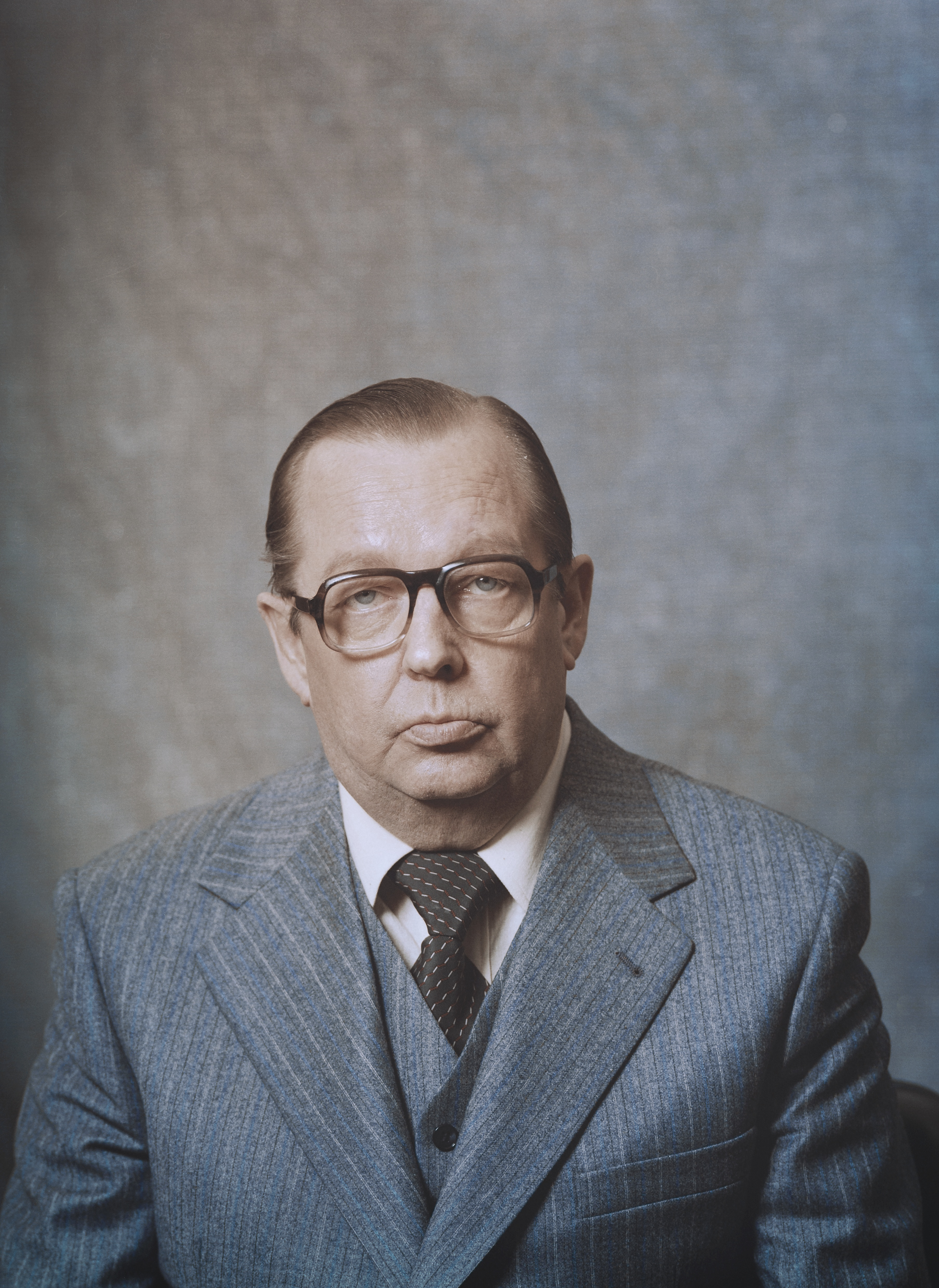 Photograph of the Finnish journalist Matti Autio (1920–1999).